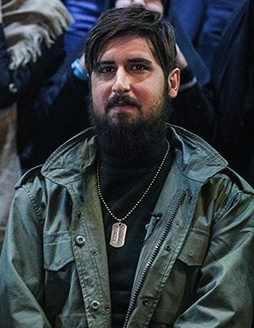 Hamed Zamani